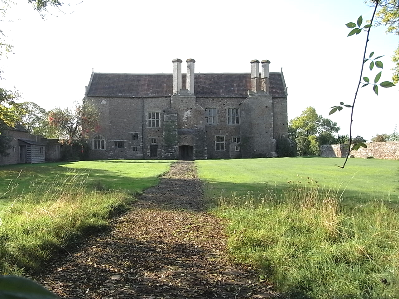 Acton Court, south front, the manor house of Iron Acton in Gloucestershire, long the seat of the Poyntz family.